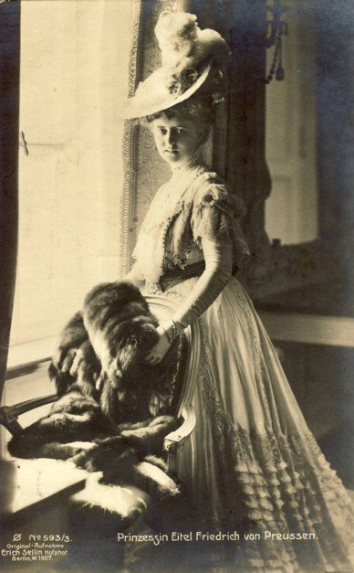 A photograph of Duchess Sophia Charlotte of Oldenburg, wife of Princess Eitel Friedrich of Prussia